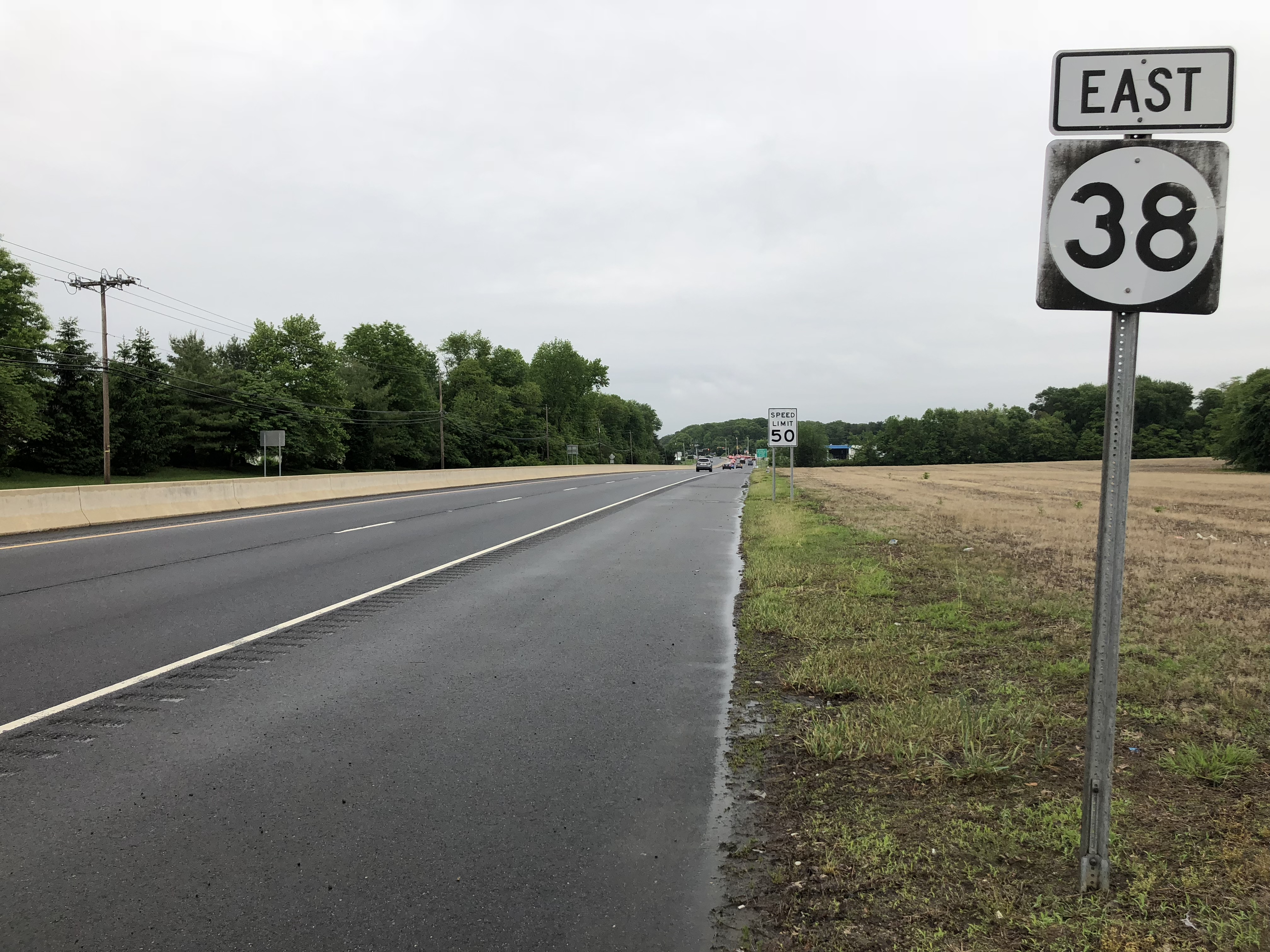 View east along New Jersey State Route 38 at Burlington County Route 636 (Fostertown Road) in Hainesport Township, Burlington County, New Jersey